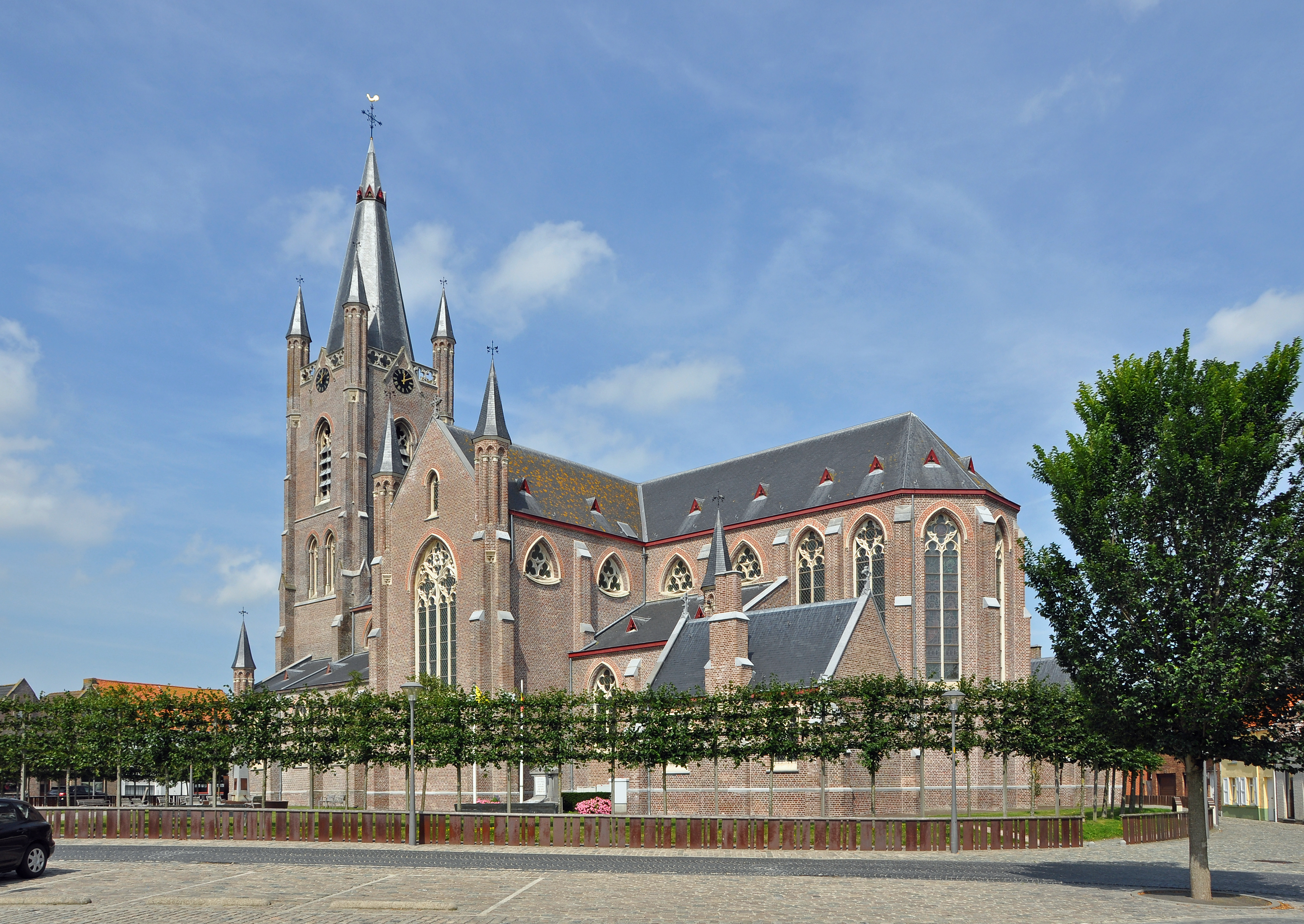 Leffinge (Middelkerke, province of West Flanders, Belgium): St Mary's church